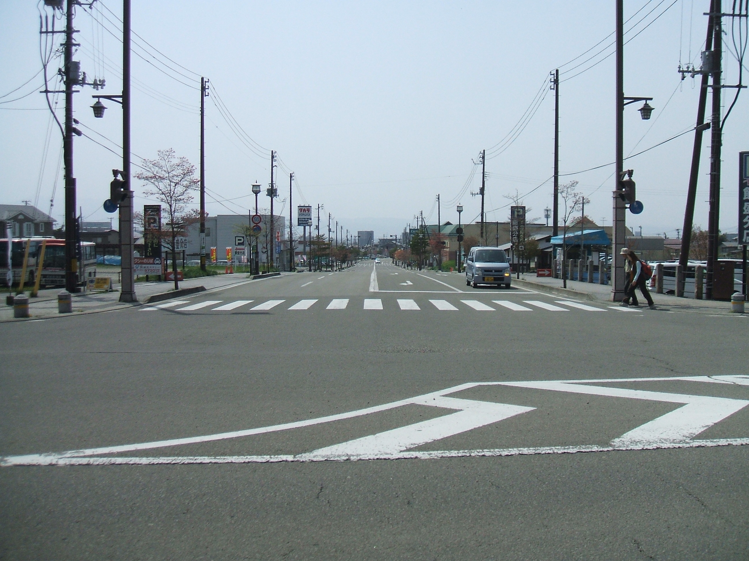 The Byakko Dori street in Aizuwakamatsu City, Fukushima Prefecture, Japan, at the Iimoriyama Iriguchi Intersection